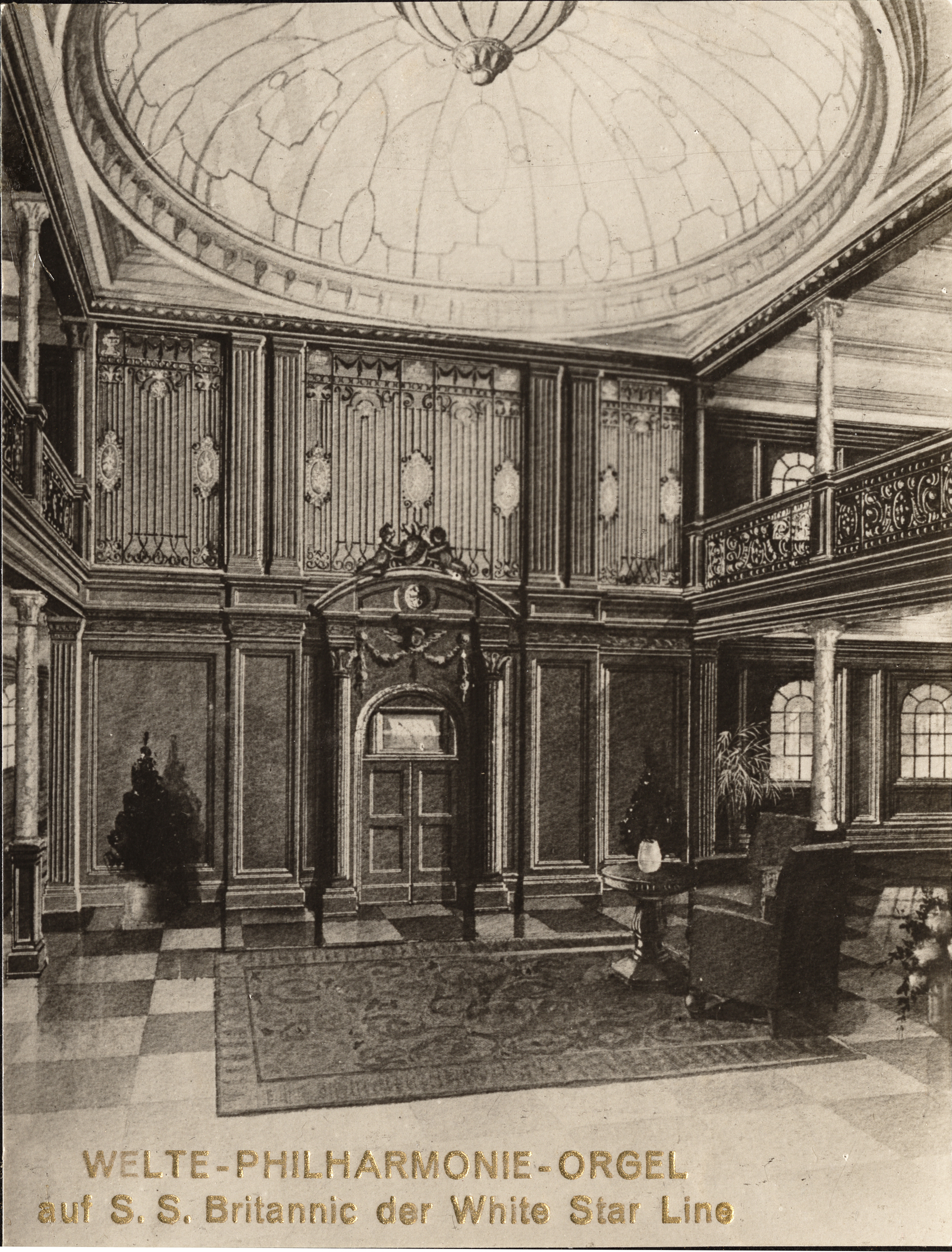 Reproduction (scan of a drawing: Welte philharmonic organ on board of SS Britannica. Drawing in a company catalogue of Welte & Sons from 1914, artist unknown